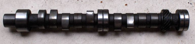 Camshaft MH 11:24, 9 July 2006 (UTC)